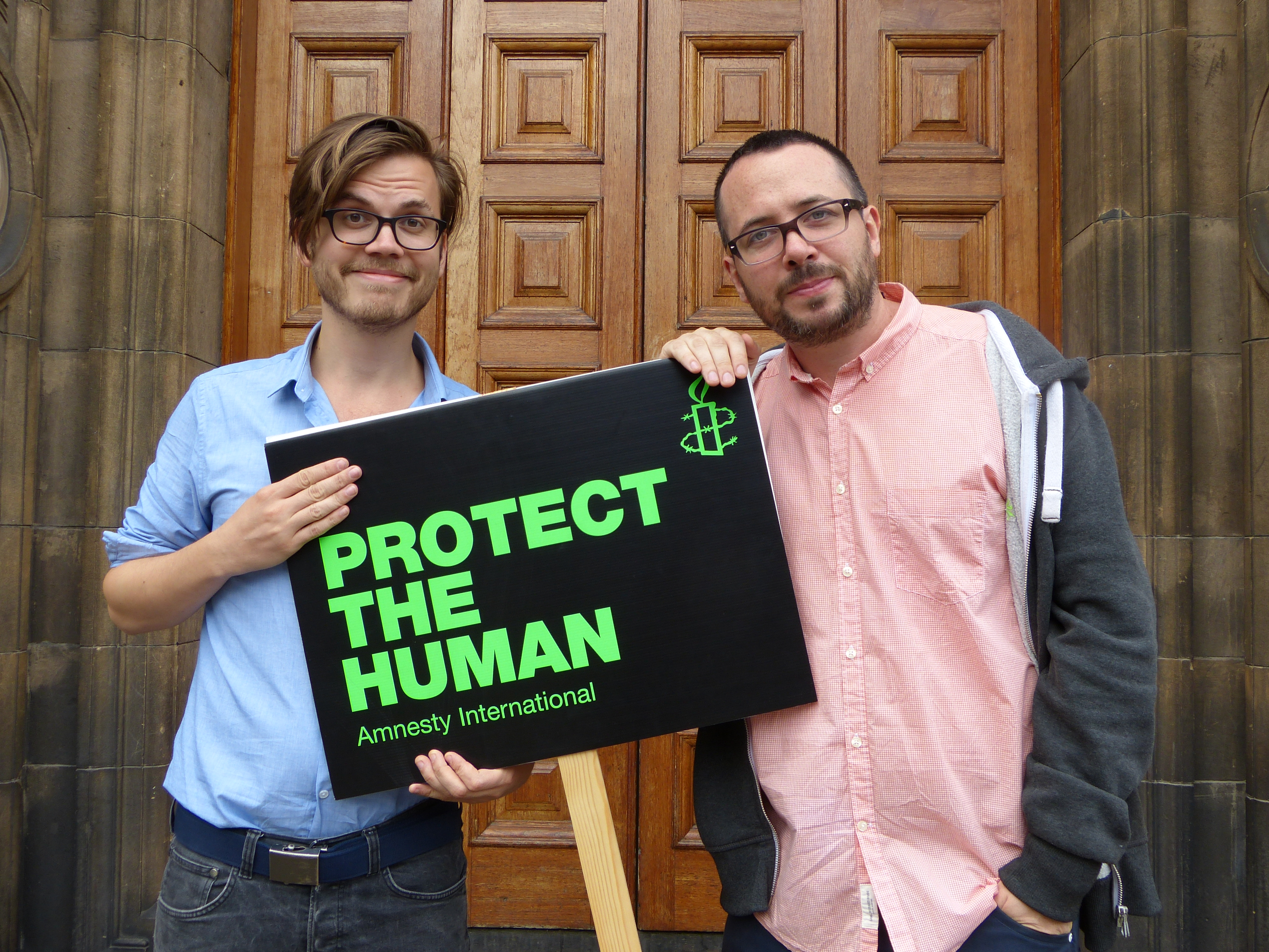 Abandoman - James Hancox (L) and Rob Broderick (R) with an Amnesty International Placard